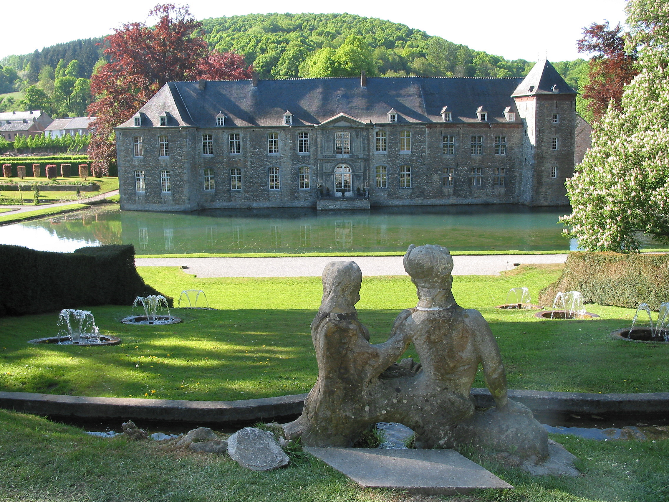 Annevoie-Rouillon (Belgium), the castel and the garden (XVII/XVIIIth centuries).